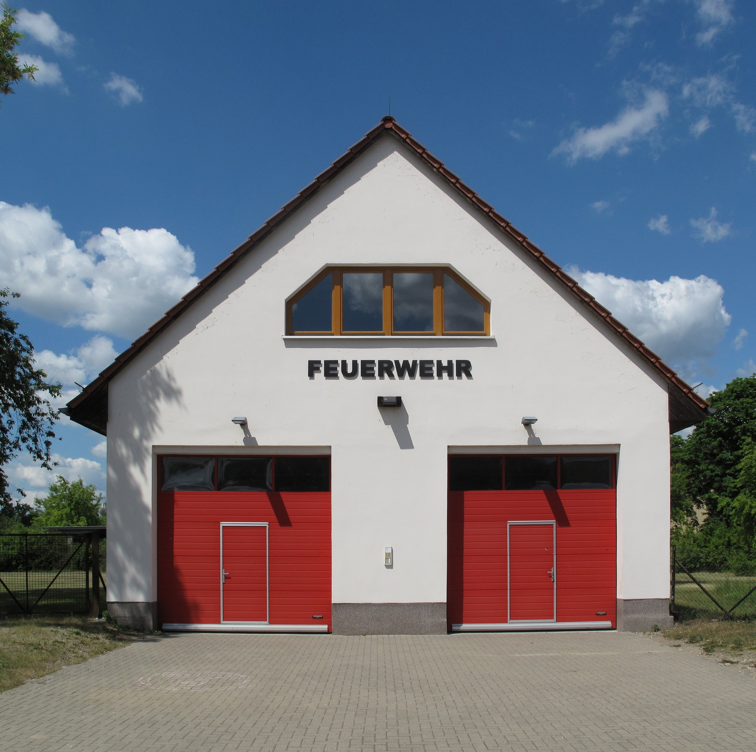 Fire station in Kienbaum. The village Kienbaum is a part of the municipality Grünheide, District Oder-Spree, Brandenburg, Germany. The village had in 2011 approximately 300 inhabitants.